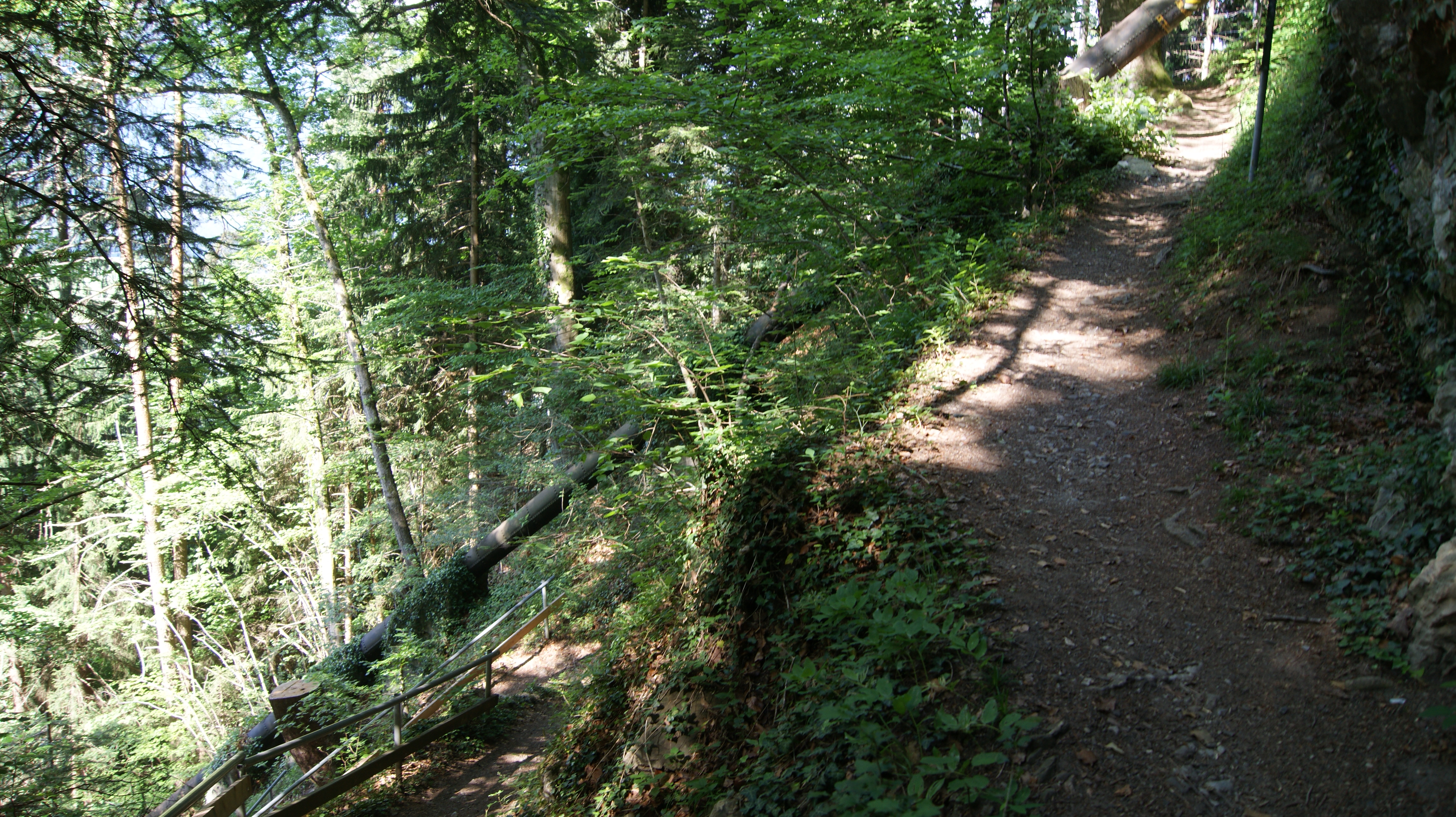 Penstock of the old Montiola power plant in the parish Thüringen in Vorarlberg, Austria.